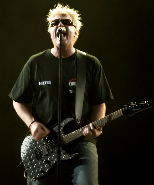 Dexter Holland from The Offspring at Sziget Festival in Budapest, Hungary.